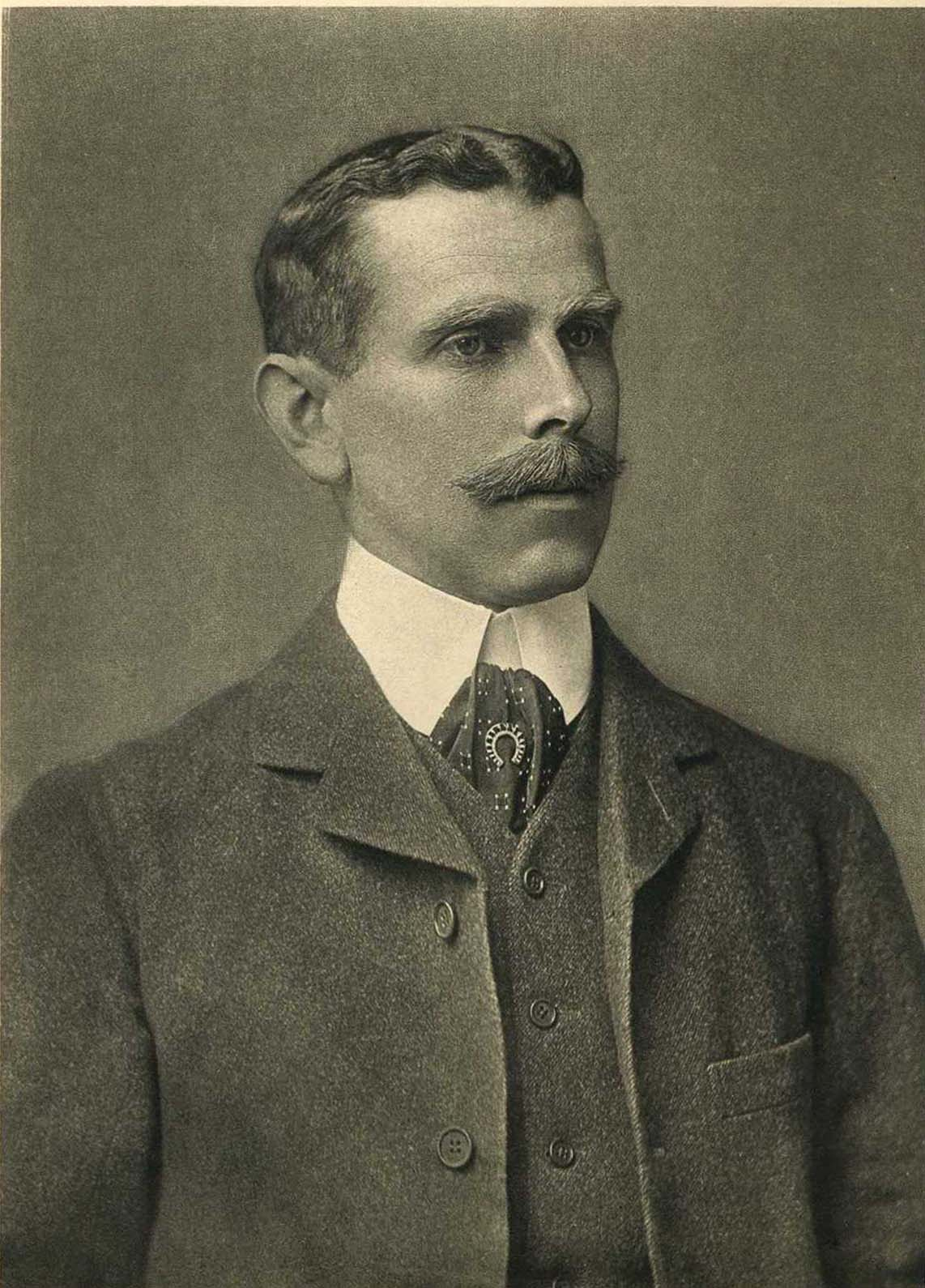 John Samuel Budgett is fully described in Wikipedia.